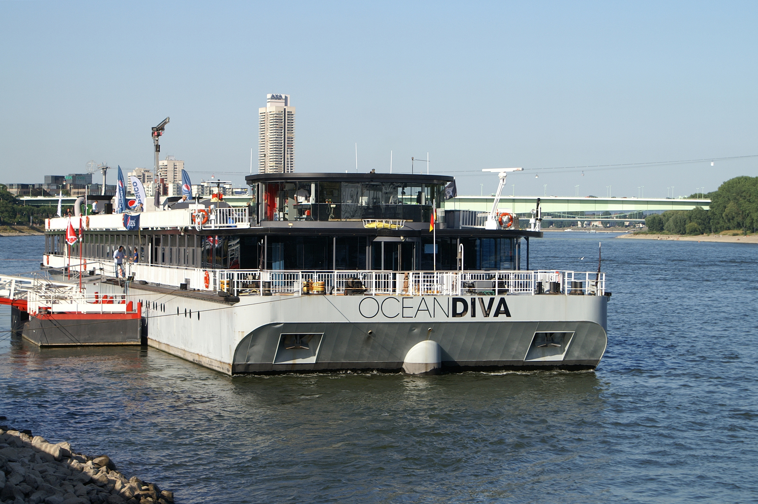 Party and eventship Ocean Diva in Cologne.